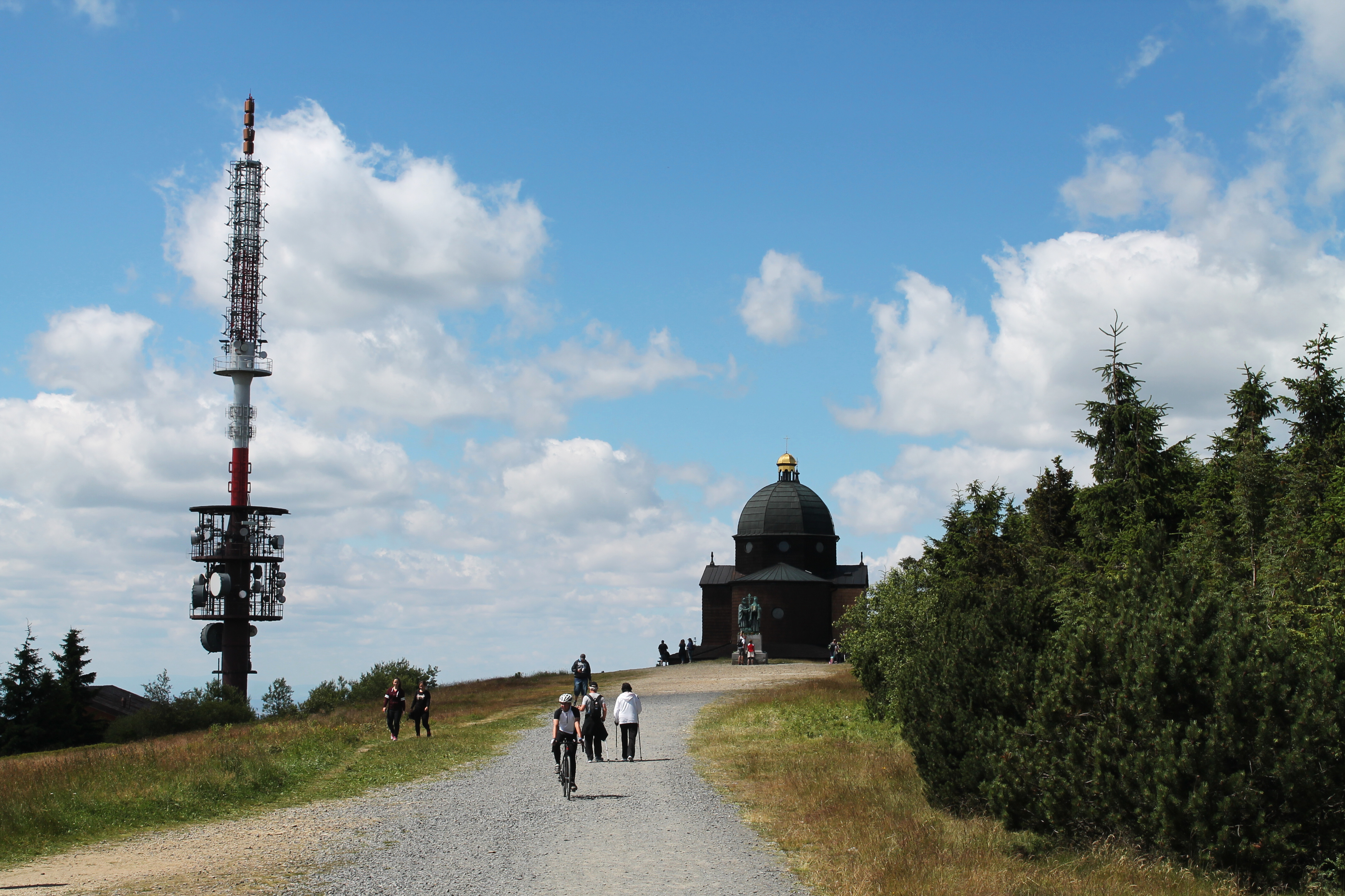 Radhošť, Dolní Bečva, Vsetín District / Trojanovice, Nový Jičín District, Czech Republic